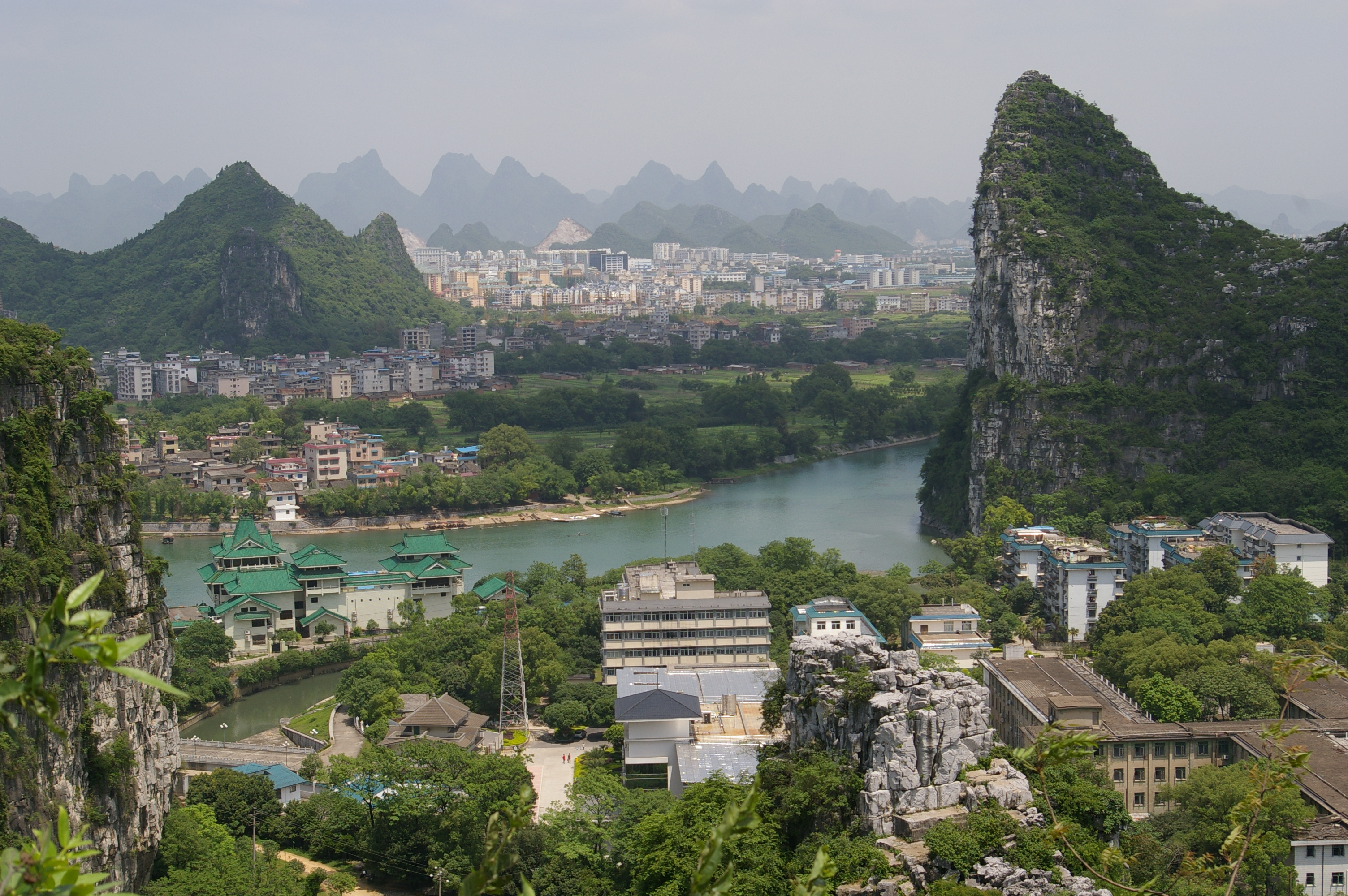 Guilin and the Lijiang River — in Guangxi autonomous region-province, Southeastern China. With landmark Karst rock formations.